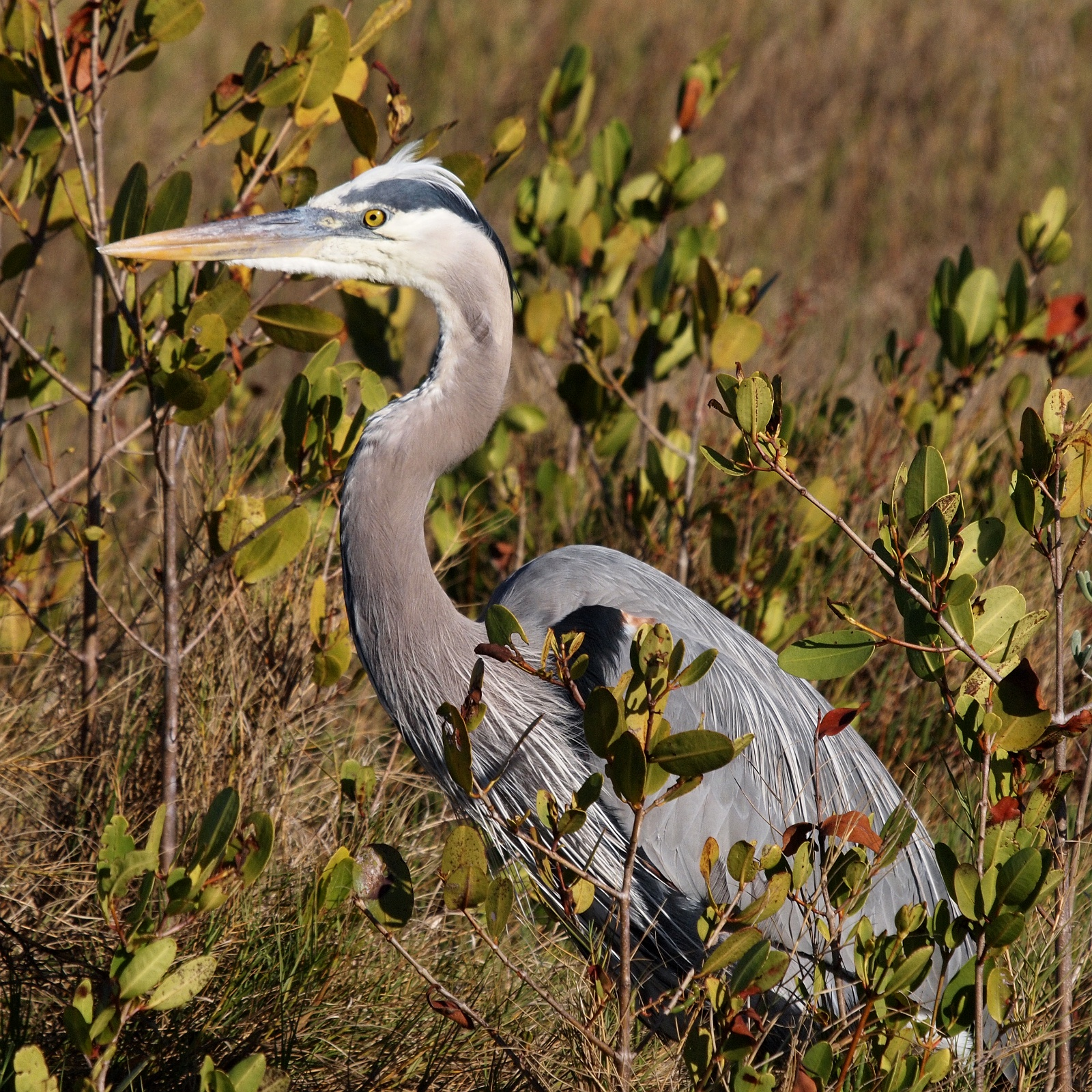 A Great Blue Heron (Ardea herodias) in the brush. Photo taken with an Olympus E-P1 in the Merritt Island National Wildlife Refuge, FL, USA. Cropping and post-processing performed with The GIMP.